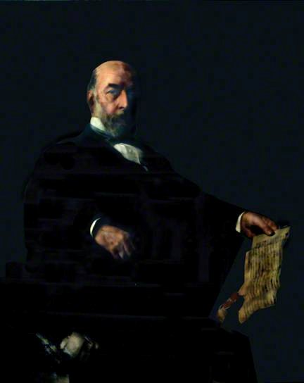 Portrait of Robert Malcolm Kerr (1821-1902)